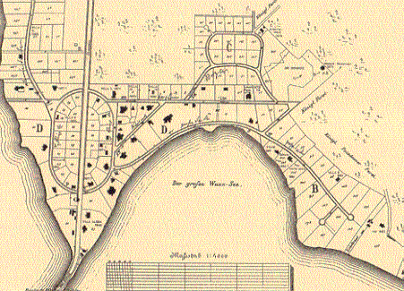 Map of the Colony Alsen (1883), now part of Berlin-Wannsee.